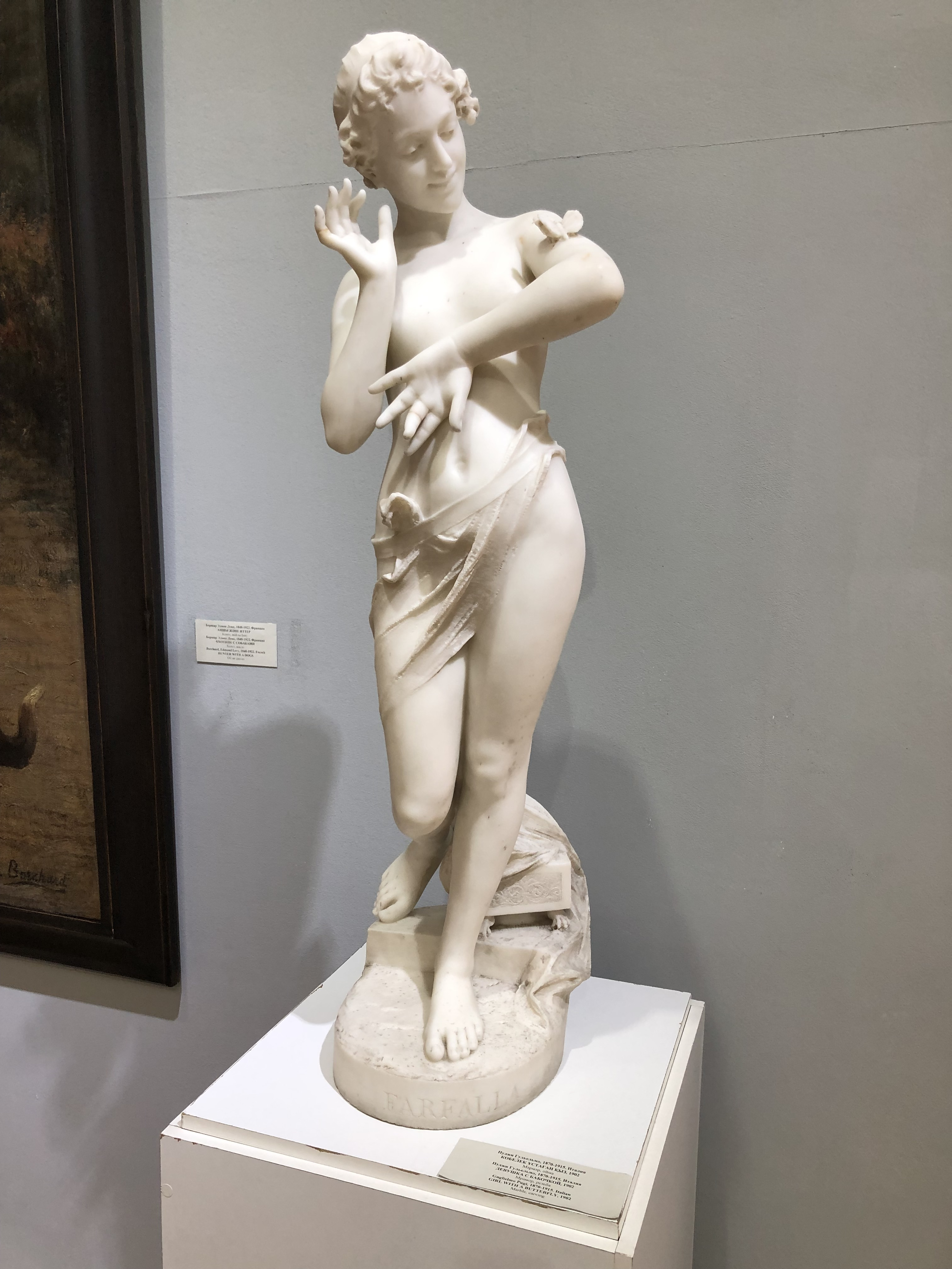 marble